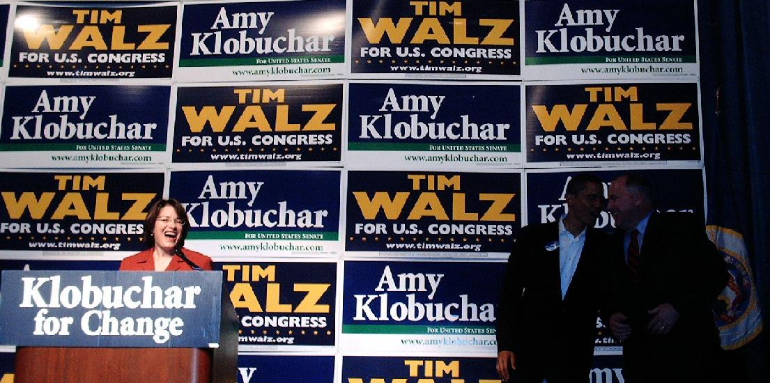 A campaign rally for Amy Klobuchar and Tim Walz with Barack Obama in Rochester, Minnesota.